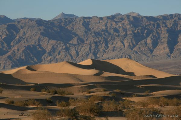 For more pictures, please Own photo, from website. The dunes of Death Valley National Park, near Stovepipe. Own photo, from website. More photos at